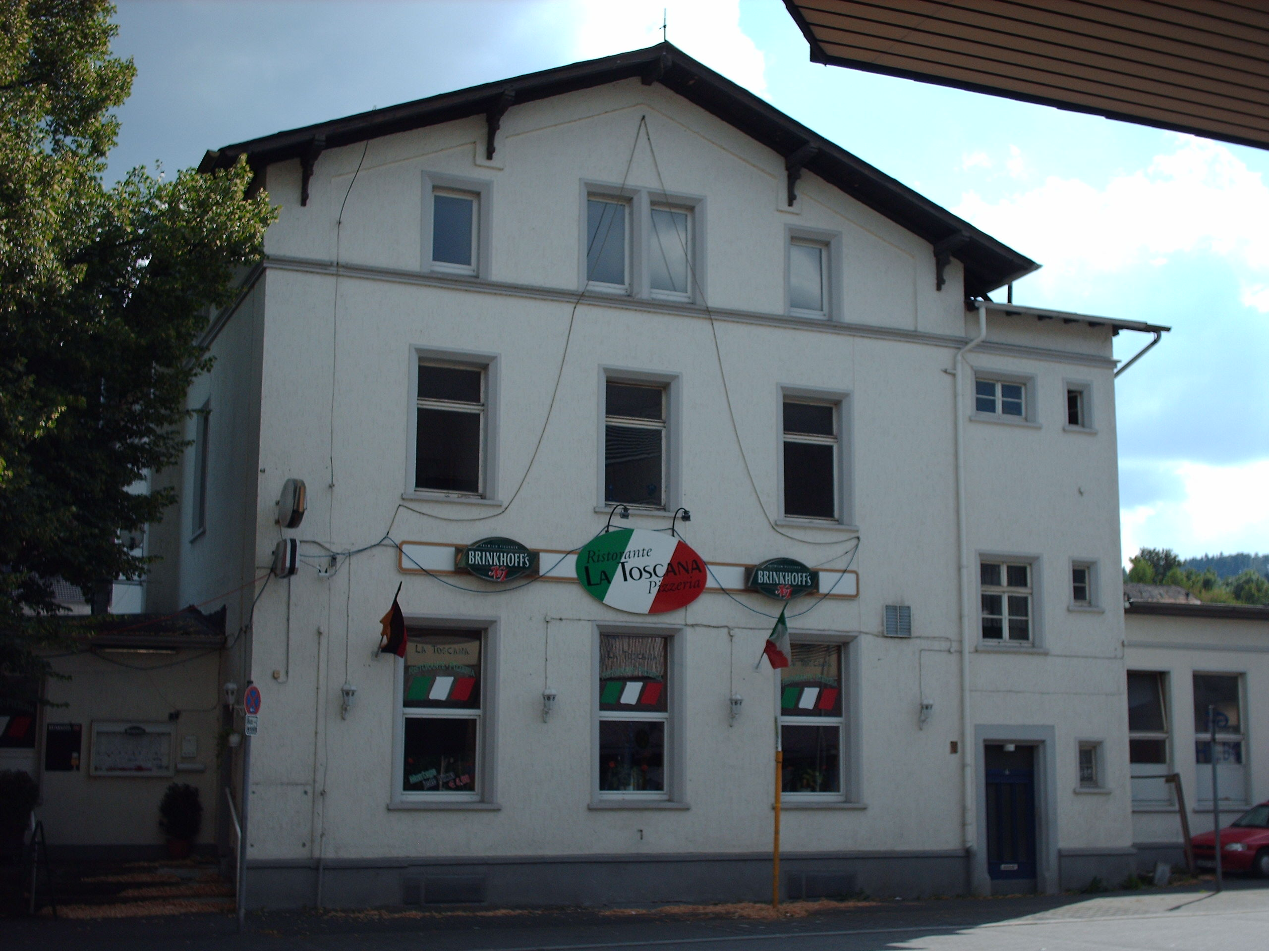 Hohenlimburg station, Hagen, Germany. Demolished in 2011 check usage